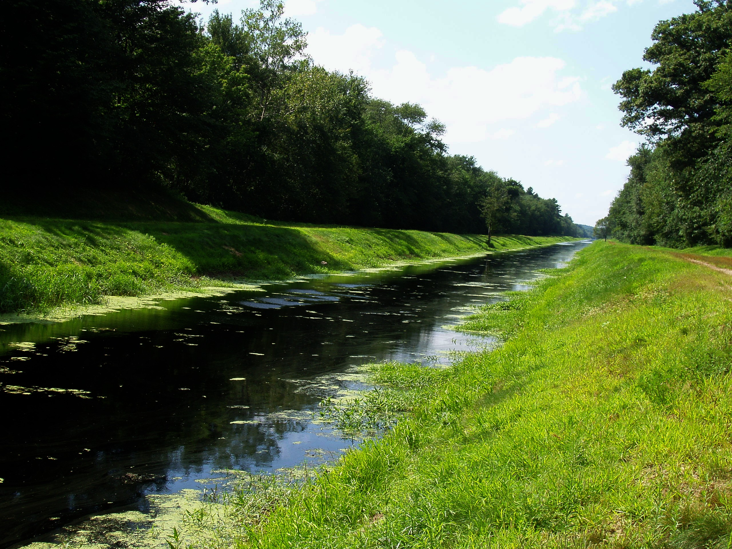 Salem Beverly Waterway Canal - Wenham, Massachusetts. View from the Wenham end looking towards Topsfield.